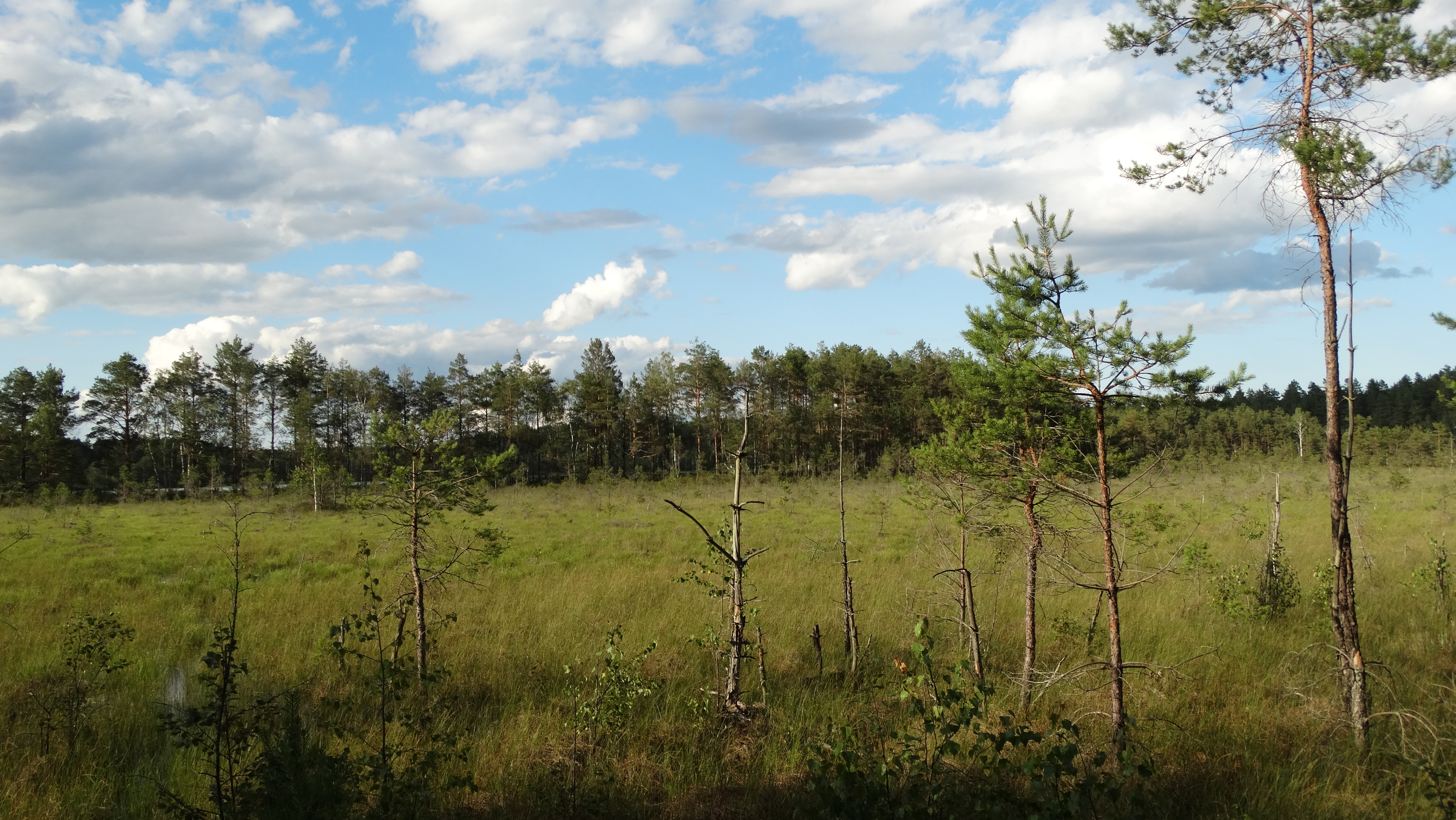 Ešerinis I Telmological Reserve, Švenčionys district, Lithuania